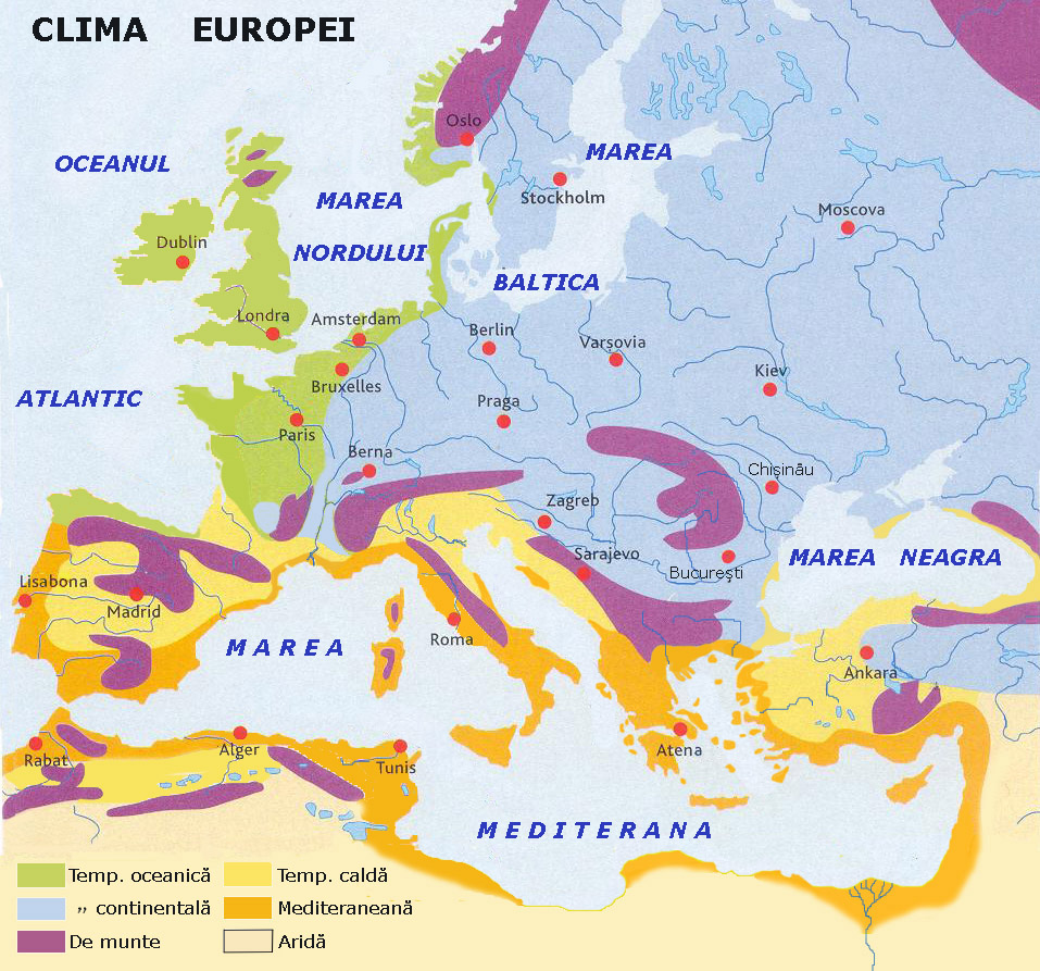 Europe's climate (romanian map)